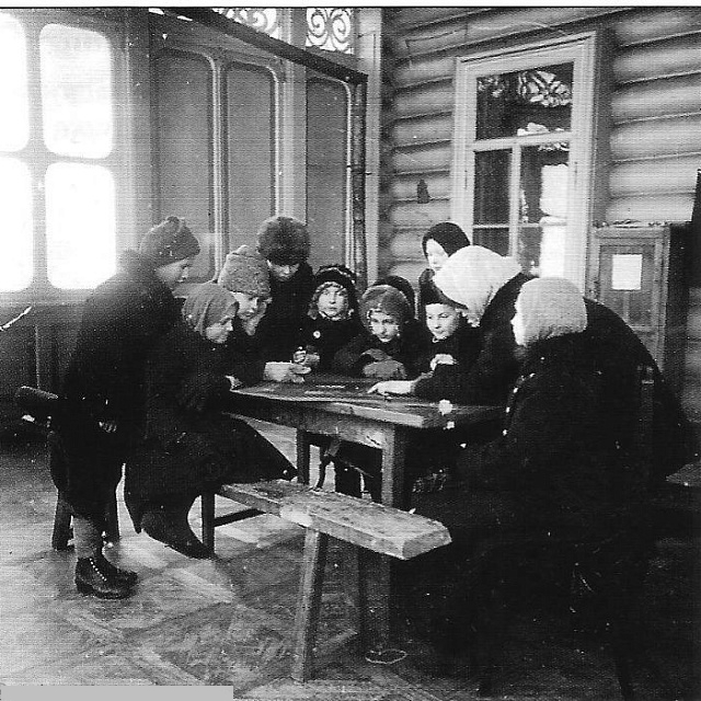 Dacha Lyamina.